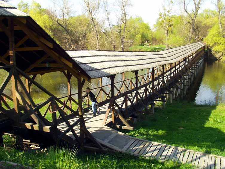 Wooden bridge in Kolárovo